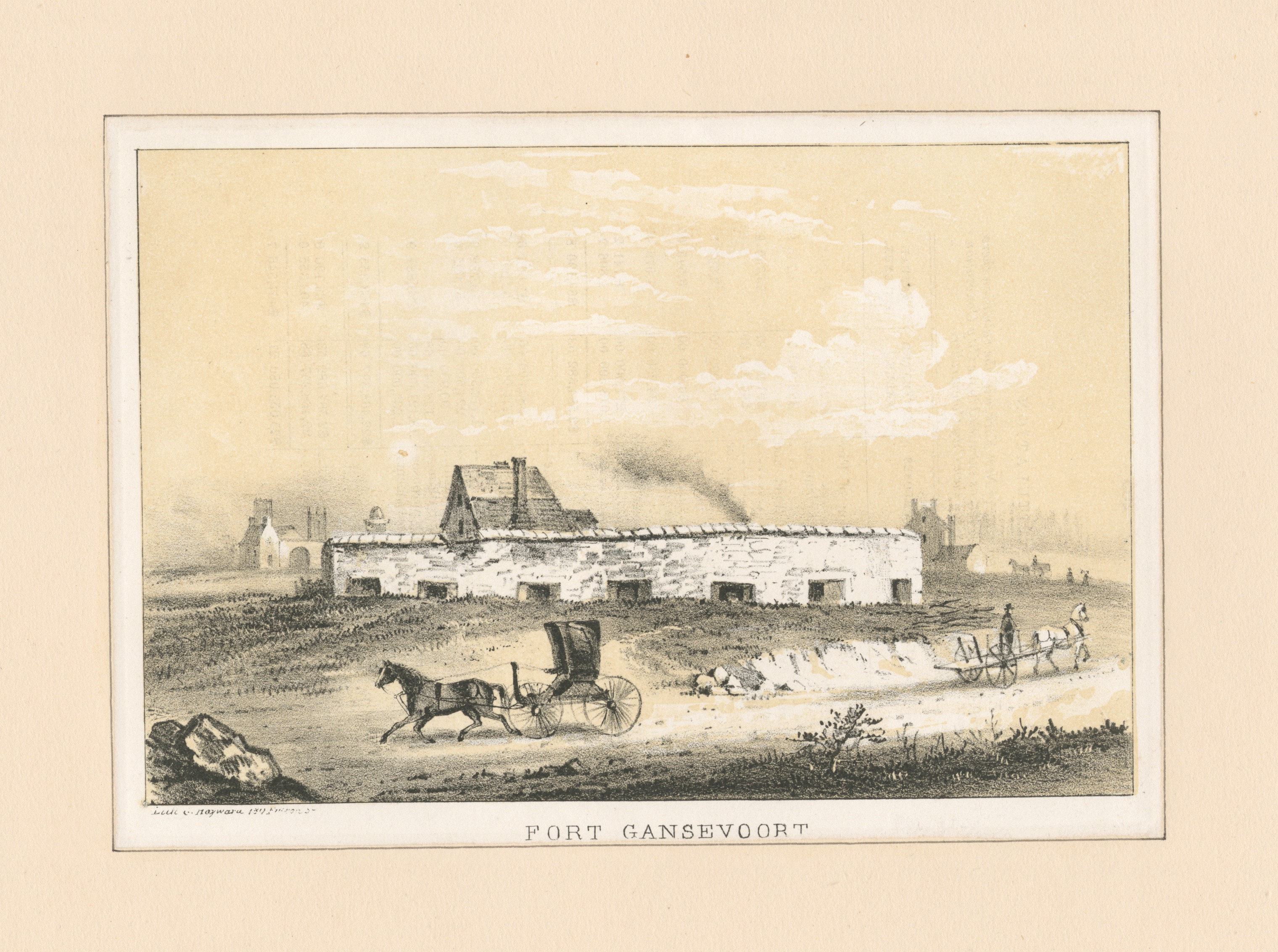 Includes photographic reproductions. Printmakers include Alexander Anderson, W.J. Bennett, C.G. Childs, A.J. Davis, A.B. Durand, Eliza Greatorex, George Hayward, John Rodgers & Imbert's Lithographic Office. Title from Calendar of Emmet Collection. EM11361 Statement of responsibility : G. Hayward